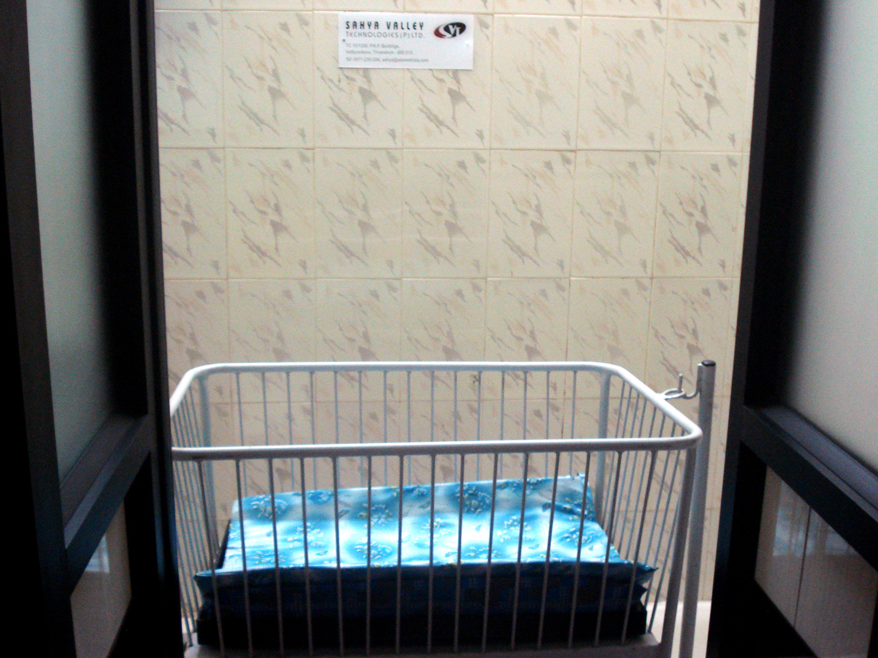 This is the cradle to save orphan babies.